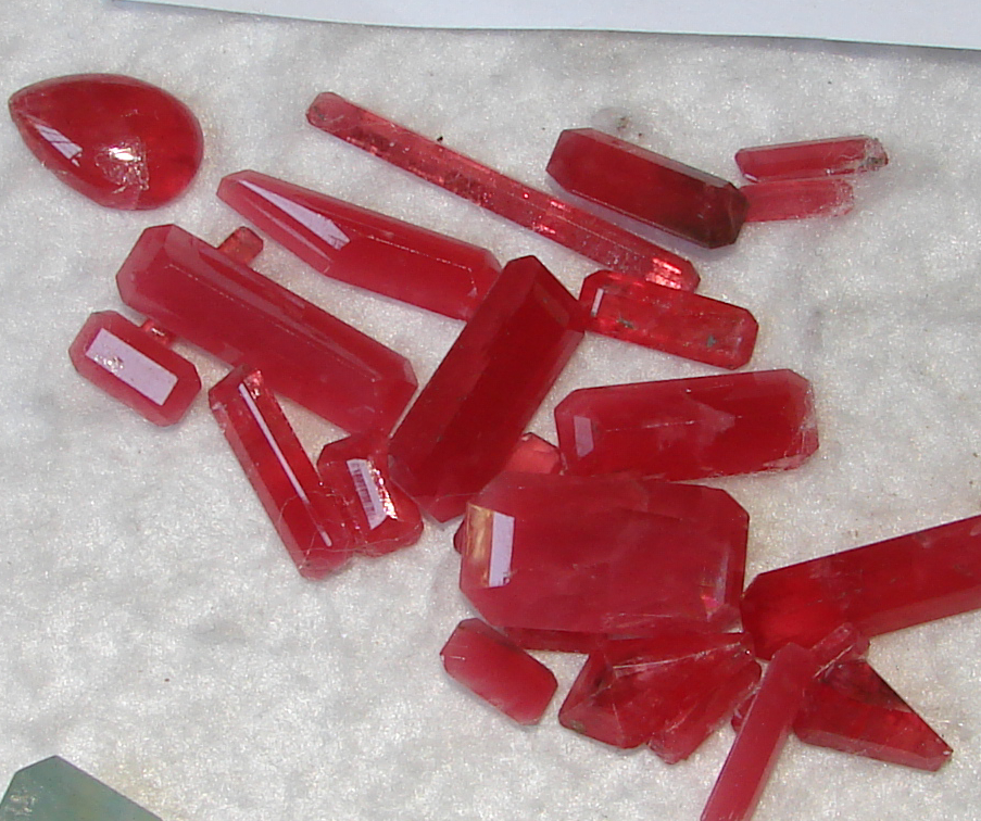 Rhodonite, Brazil. Gem cutting by Afonso Marques